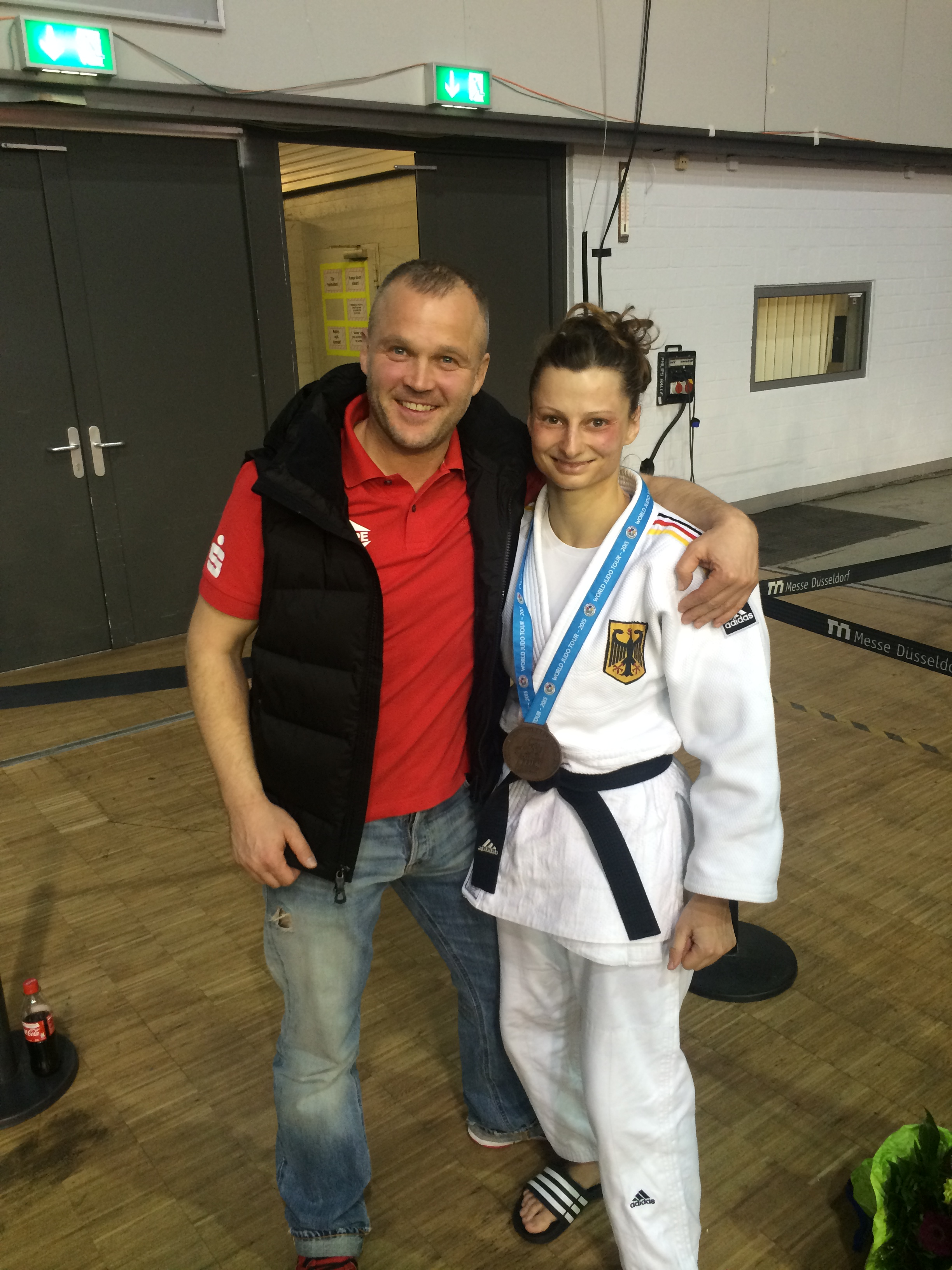 This is German Judoka Mareen Kräh after winning a bronze medal at the IJF World Series in Düsseldorf (2015) with Coach Dirk Meyer